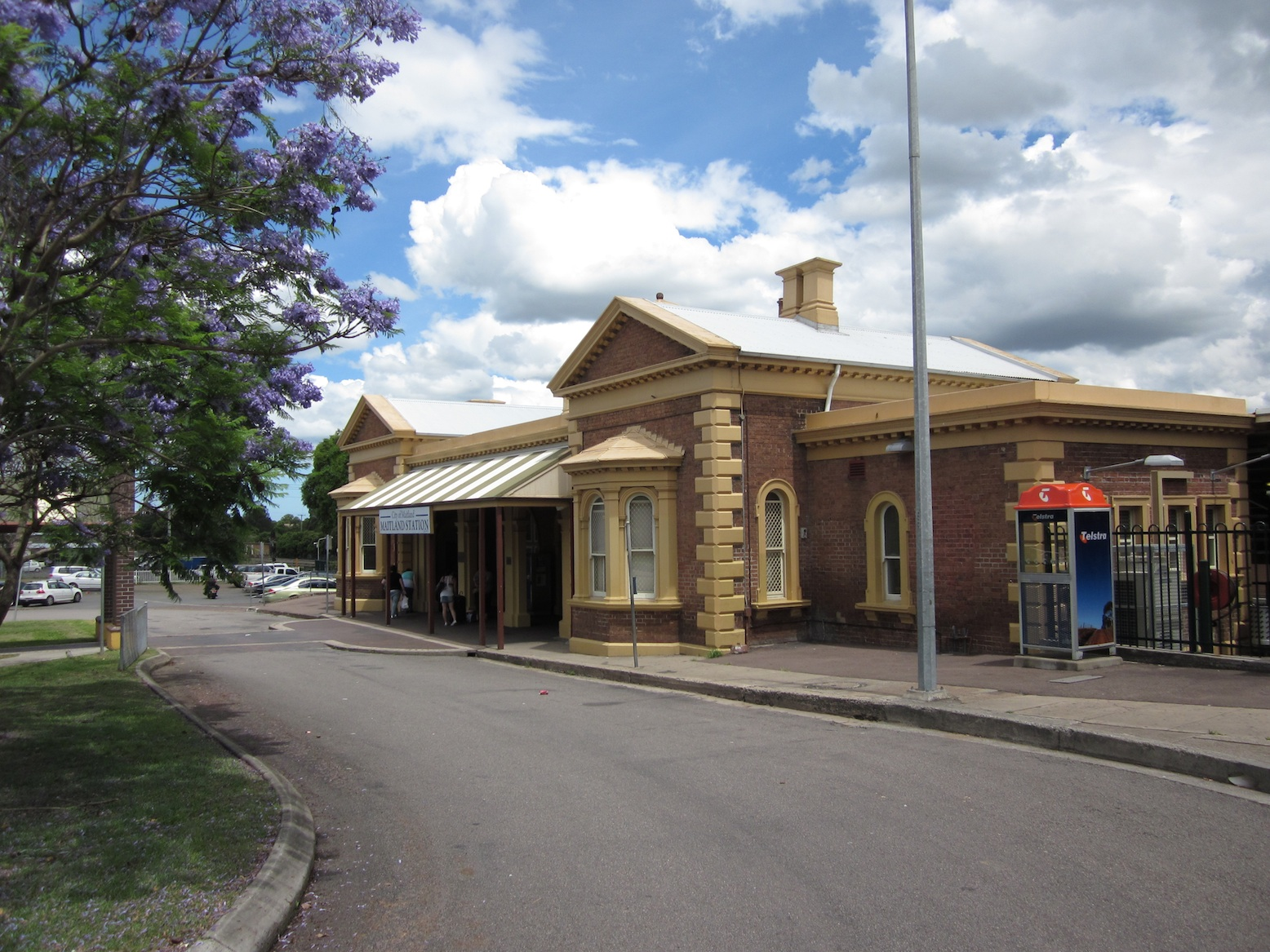 Maitland Railway Station, central Maitland.